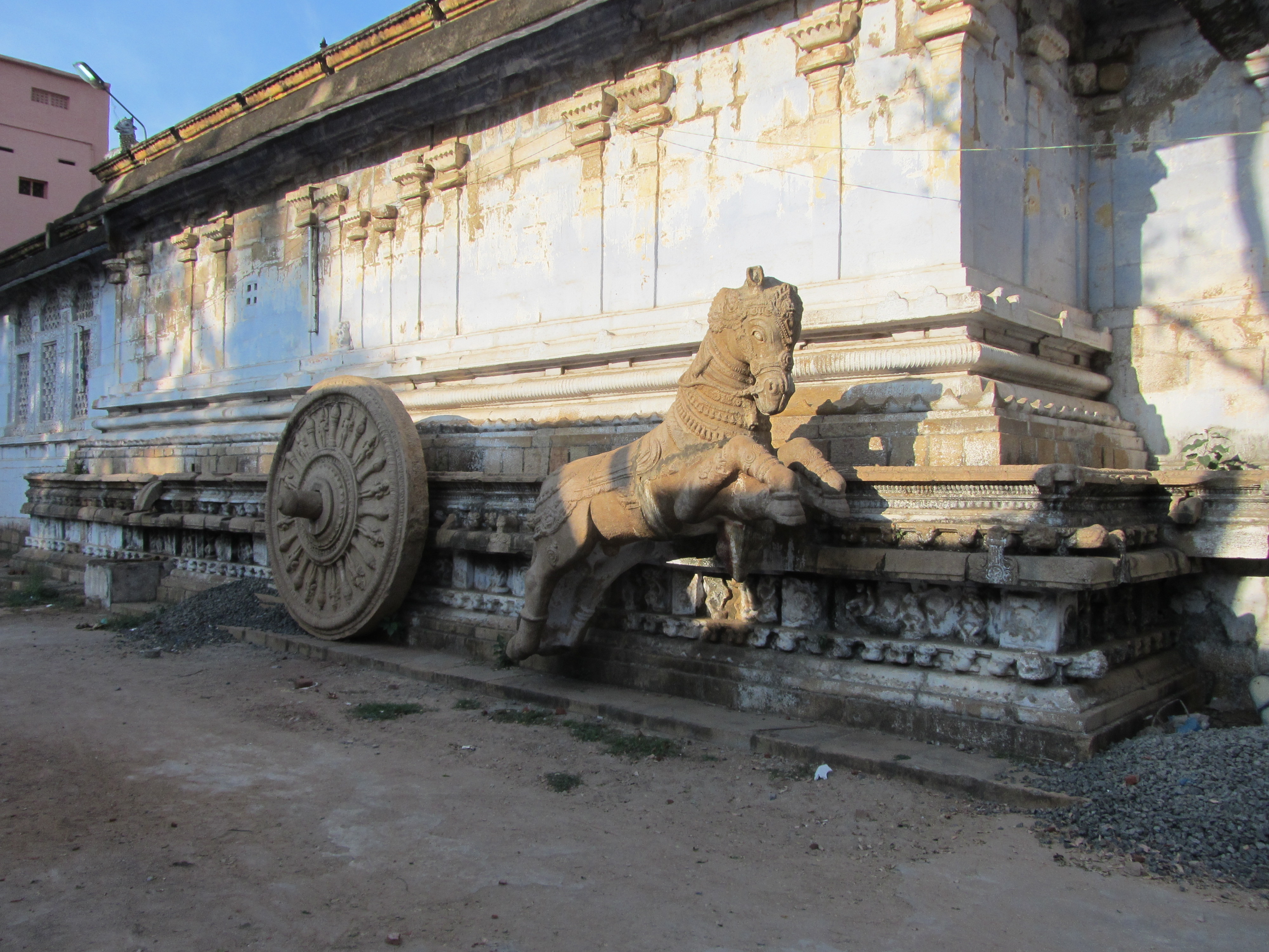 The sculpture at the Nageswaraswamy temple in Kumbakonam town.